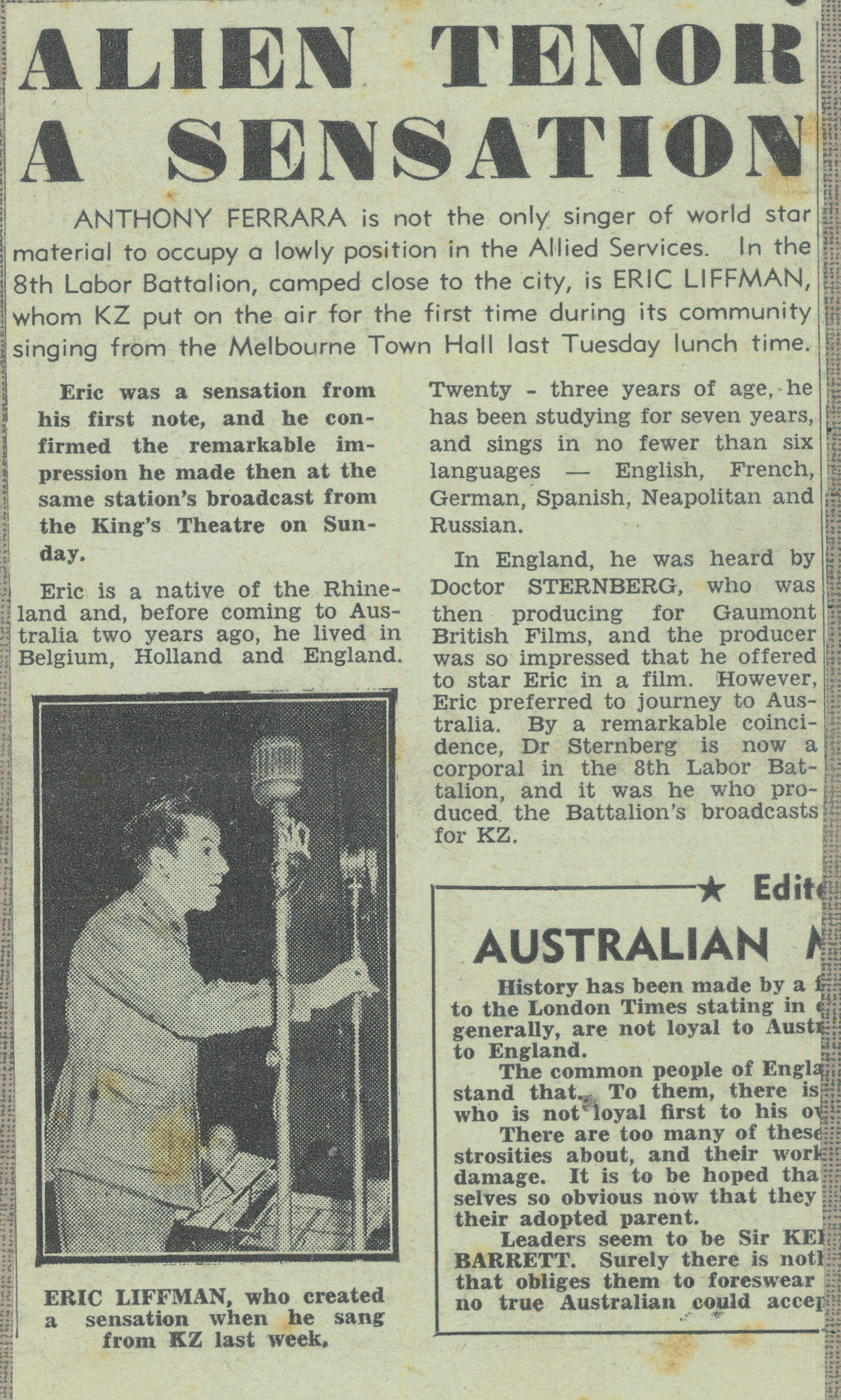 A Melbourne-based newspaper article describing the discovery of the tenor Eric Liffman